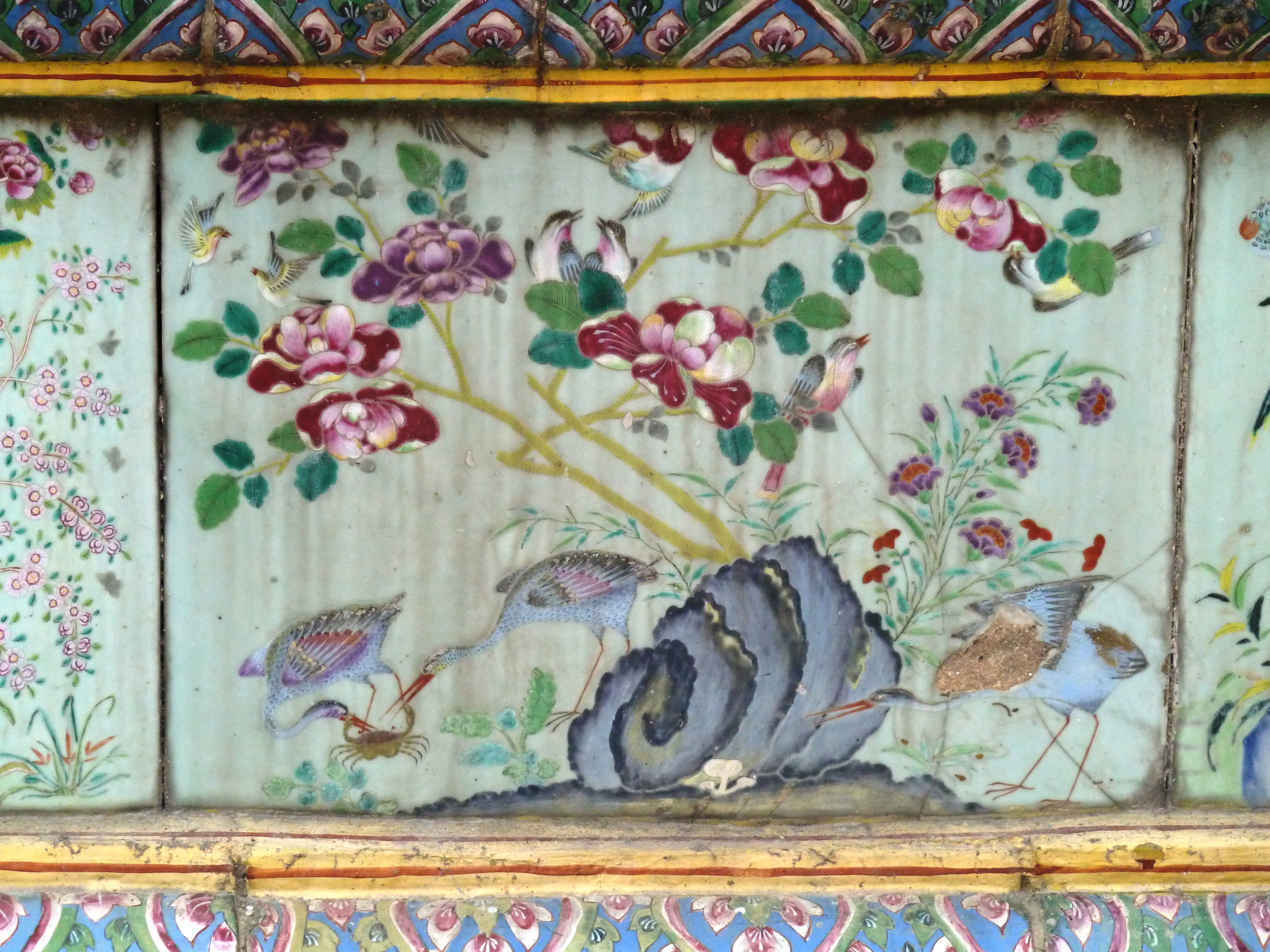 Wat Phra Kaew, the Grand Palace, Bangkok, Thailand